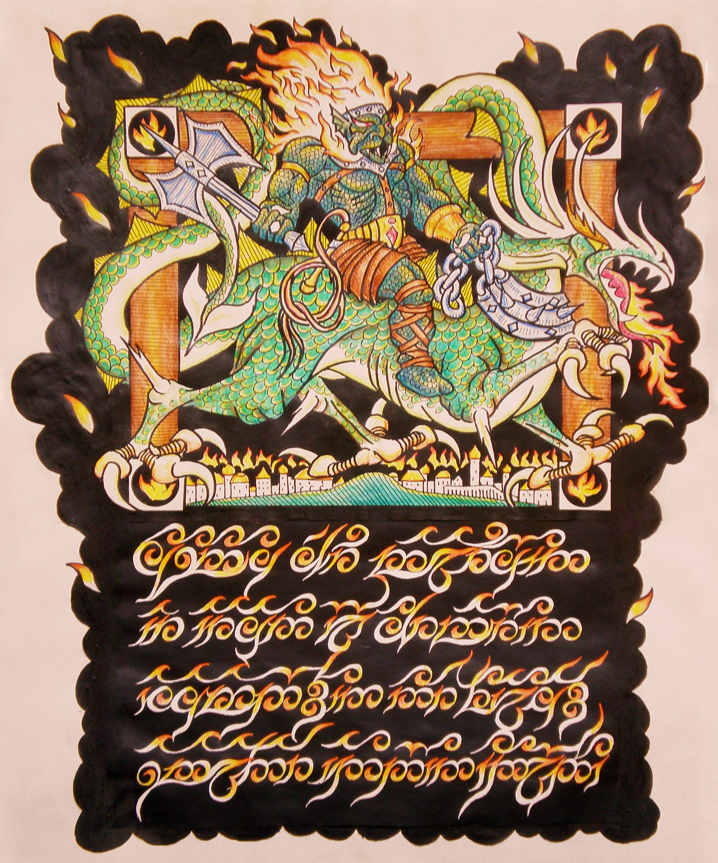 Gothmog, Lord of the Balrogs, riding a dragon.